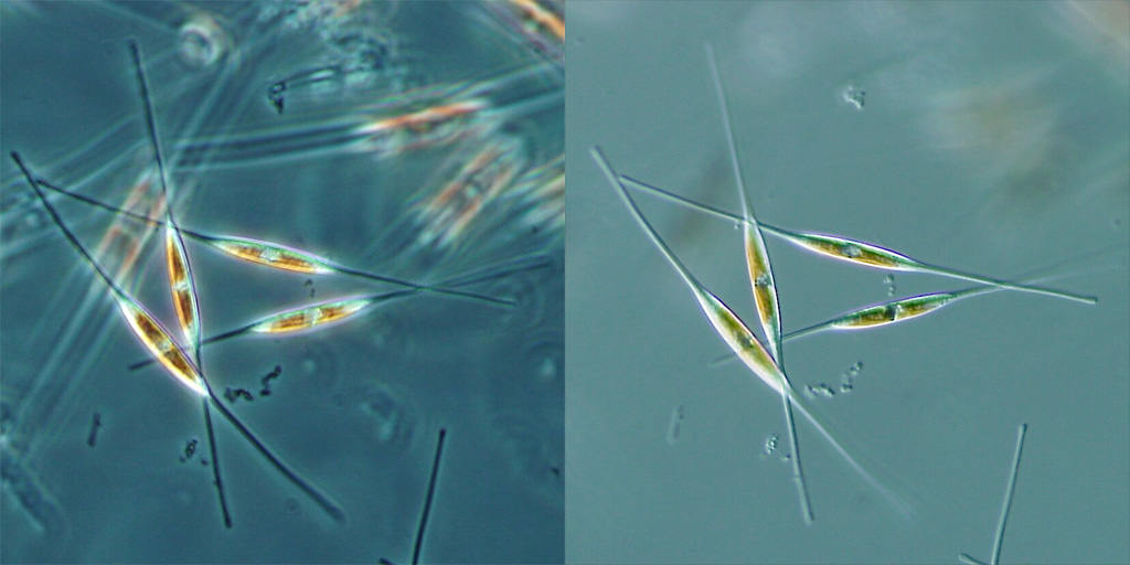 Diatom images of Phase Contrast and Differential Interference Contrast, Leica DMRD.